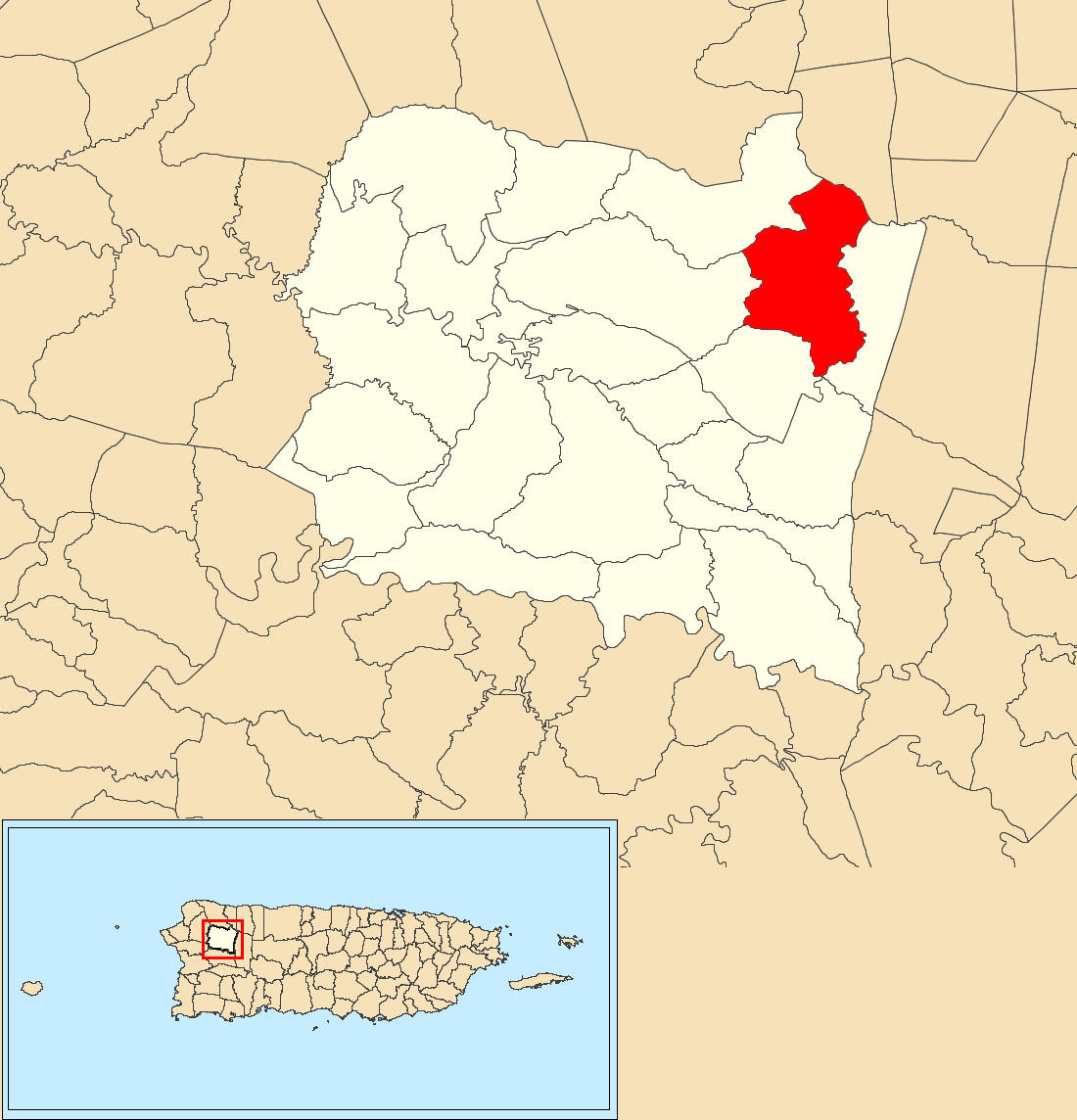 Guajataca, San Sebastián, Puerto Rico locator map